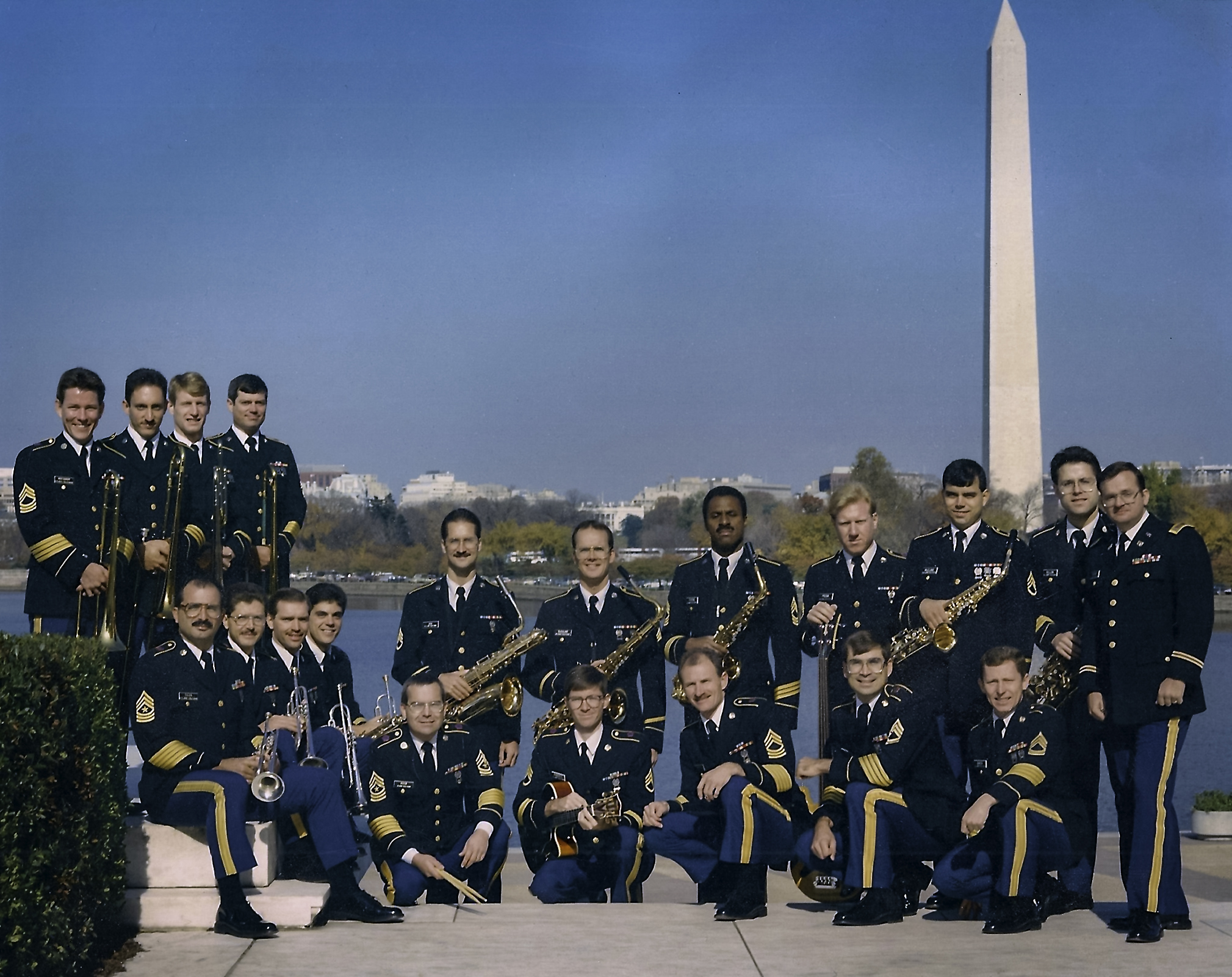 Back Left: John Montgomery - Trombone Jim Mcfalls - Trombone Homer Ruckle - Trombone Charlie Garrett - Trombone Front Left: Bruce Silva - Trumpet John Brye - Trumpet Greg Reese - Trumpet Rick Aspen - Trumpet Front: Tom Dupin - Percussions Jim Roberts - Guitar Tony Schwartz Tony Sturba John Baker Back Standing: Les Owen - Saxophone John DeSalme - Saxophone Gene Thorne - Saxophone Steve Pronk - Bass Guitar Loran McClung - Saxophone Pat Dillon - Saxophone Chuck Booker